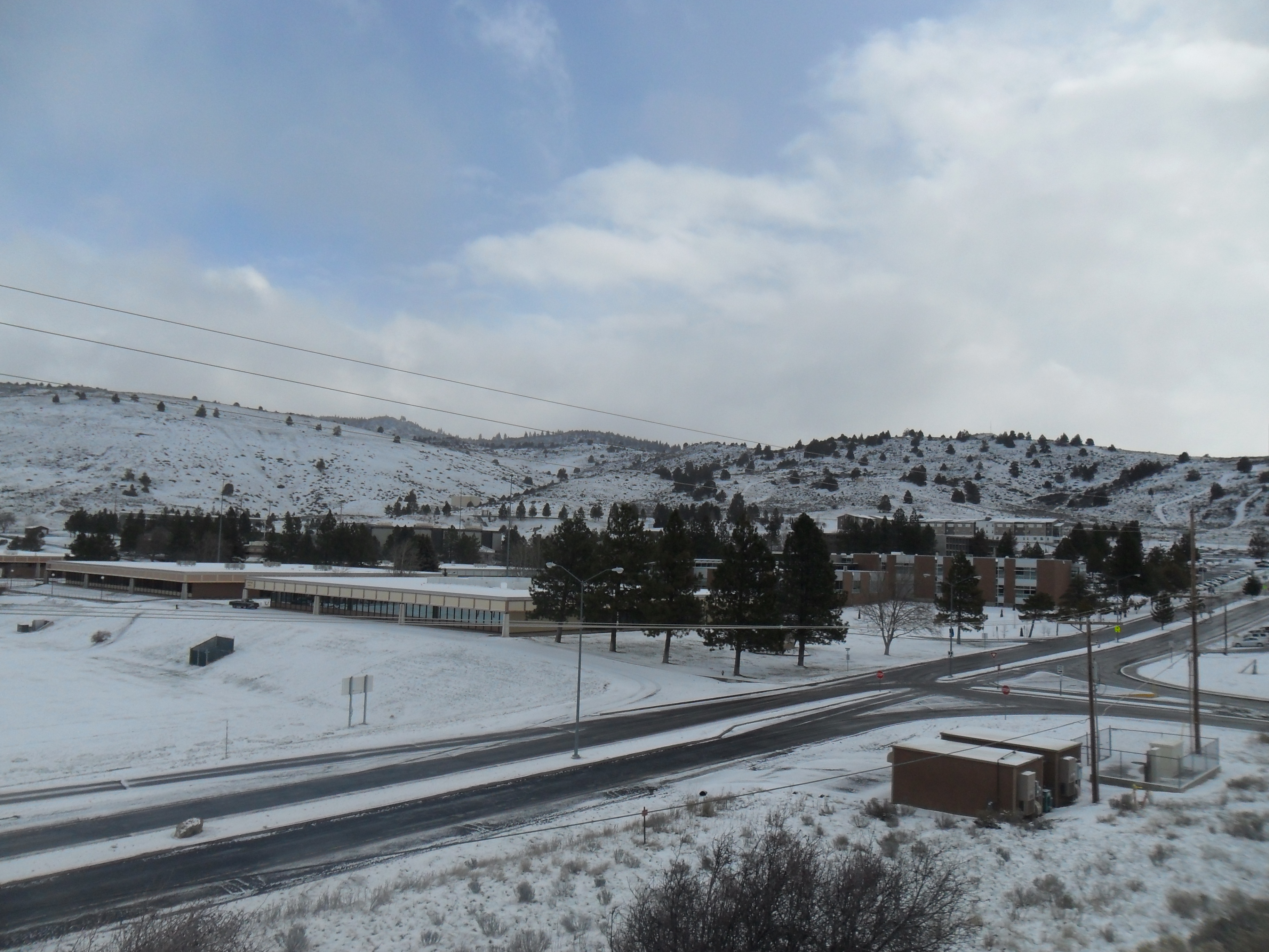 Oregon Institute of Technology, Klamath Falls, Oregon. Early Spring.